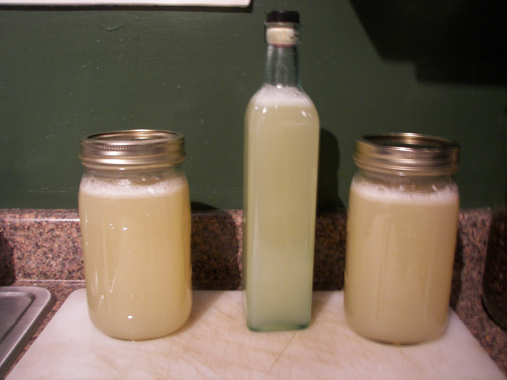 Two mason jars and a bottle of homemade orgeat syrup, made from almonds and rosewater. Photo taken in Oak Park, Michigan, United States, with a Kodak P850 Zoom digital camera.